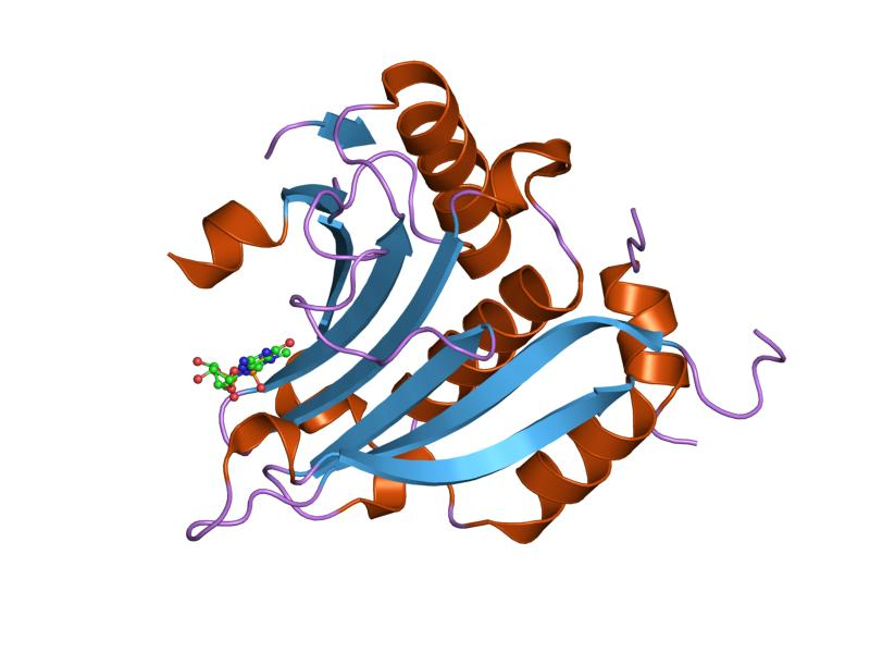 Cartoon representation of the molecular structure of protein registered with 1ej4 code.